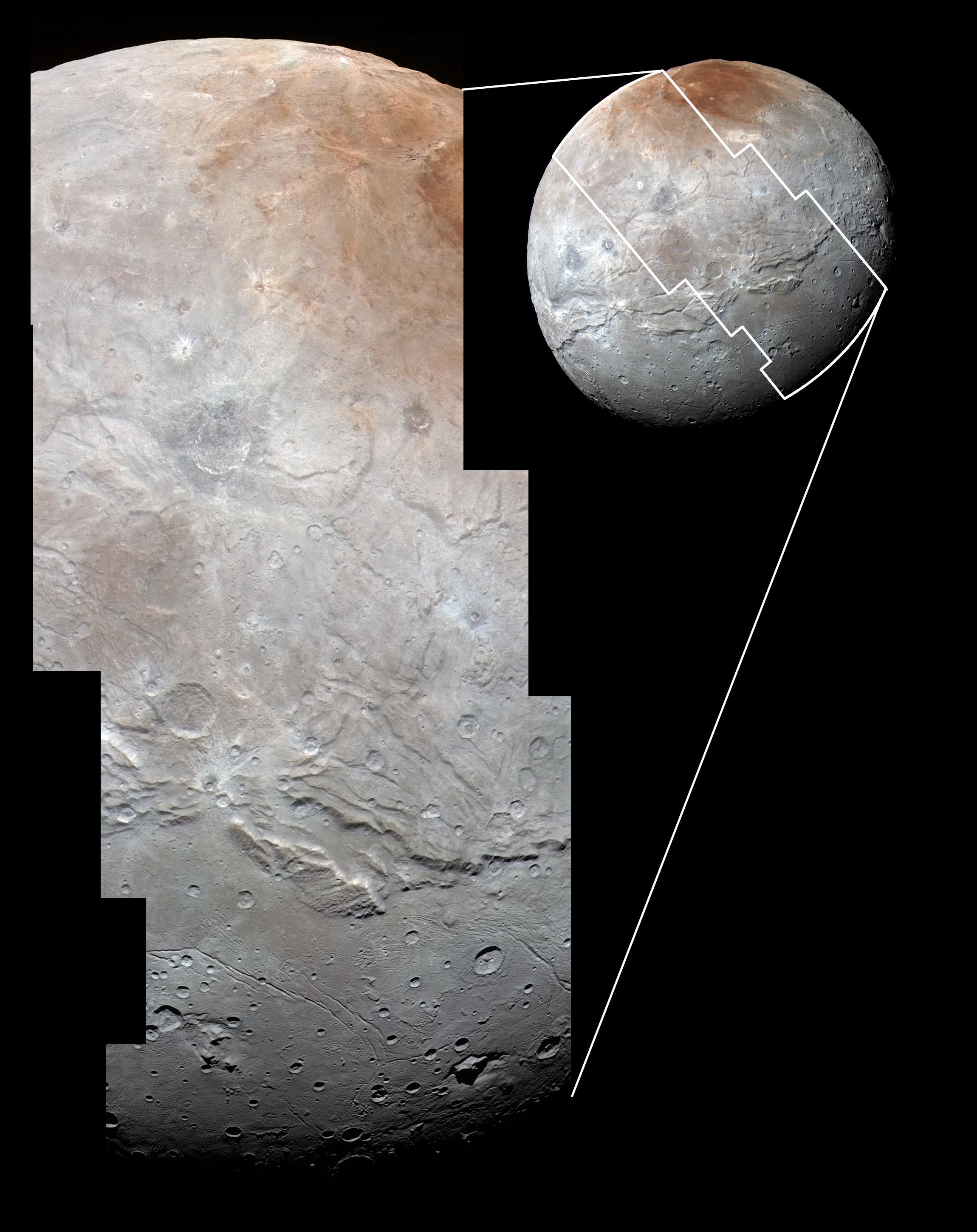 High-resolution images of Charon were taken by the Long Range Reconnaissance Imager (LORRI) on NASA's New Horizons spacecraft, shortly before closest approach on July 14, 2015, and overlaid with enhanced color from the Ralph/Multispectral Visual Imaging Camera (MVIC). Charon's cratered uplands at the top are broken by series of canyons, and replaced on the bottom by the rolling plains of the informally named Vulcan Planum. The scene covers Charon's width of 754 miles (1,214 kilometers) and resolves details as small as 0.5 miles (0.8 kilometers). The Johns Hopkins University Applied Physics Laboratory in Laurel, Maryland, designed, built, and operates the New Horizons spacecraft, and manages the mission for NASA's Science Mission Directorate. The Southwest Research Institute, based in San Antonio, leads the science team, payload operations and encounter science planning. New Horizons is part of the New Frontiers Program managed by NASA's Marshall Space Flight Center in Huntsville, Alabama. The original NASA image has been converted from TIFF to JPEG format and cropped by the uploader.